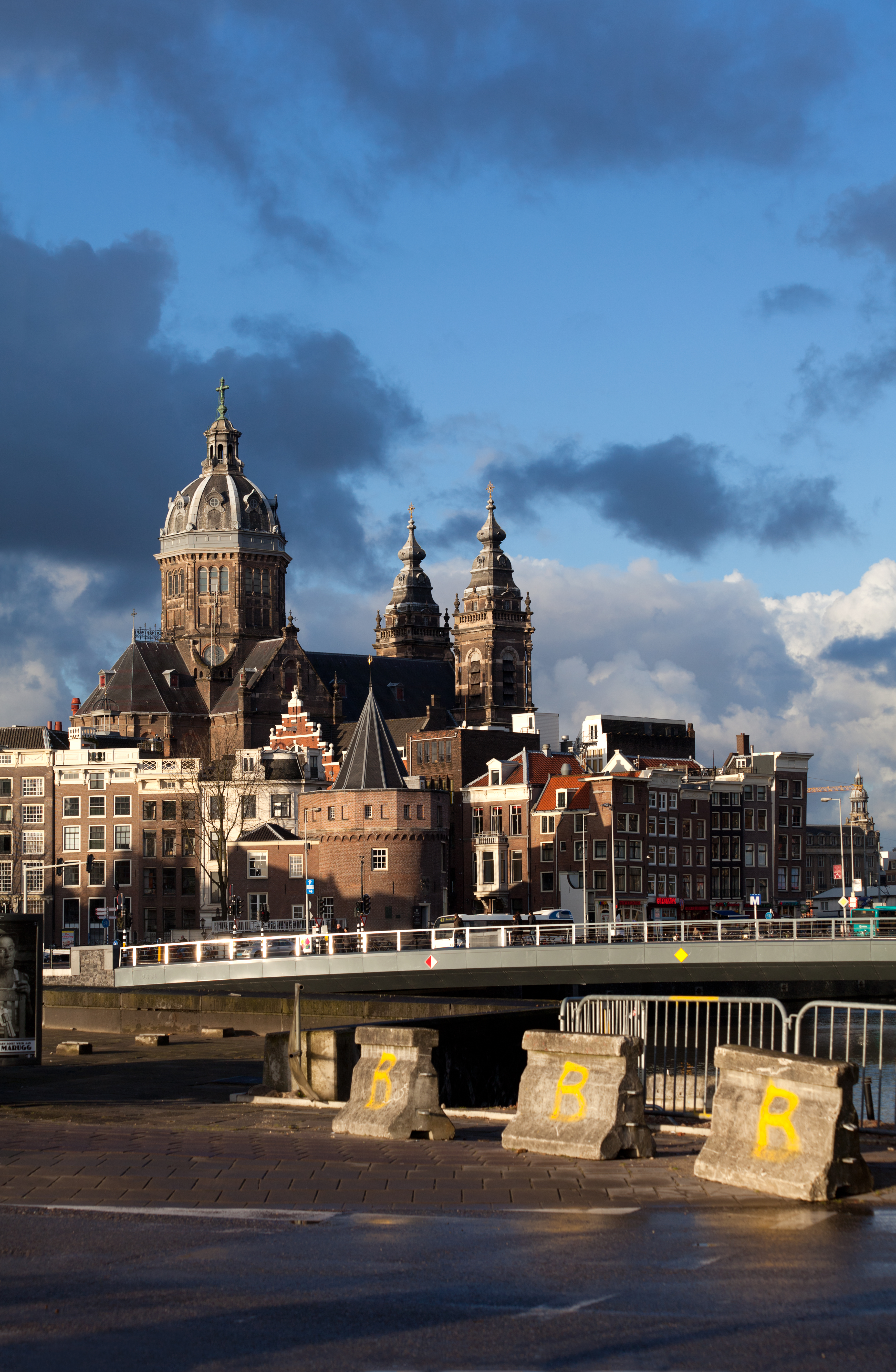 Sint-Nicolaaskerk, Amsterdam taken on the last day of GLAMcamp Amsterdam.